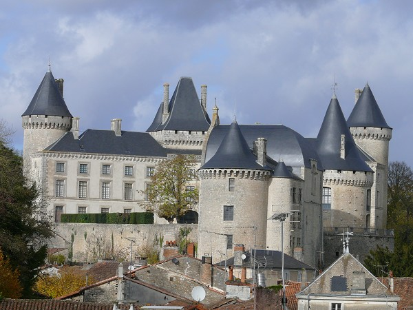 Verteuil castle